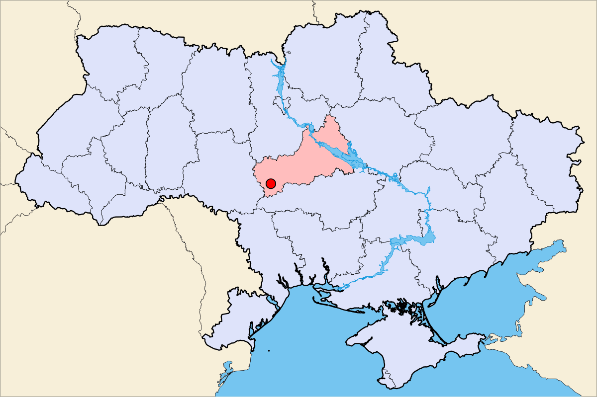 Description = Uman geographical position Source = own work, Skluesener Date = 22.01.2006 Author = Skluesener Credits = Colours chosen according to a map of steschke